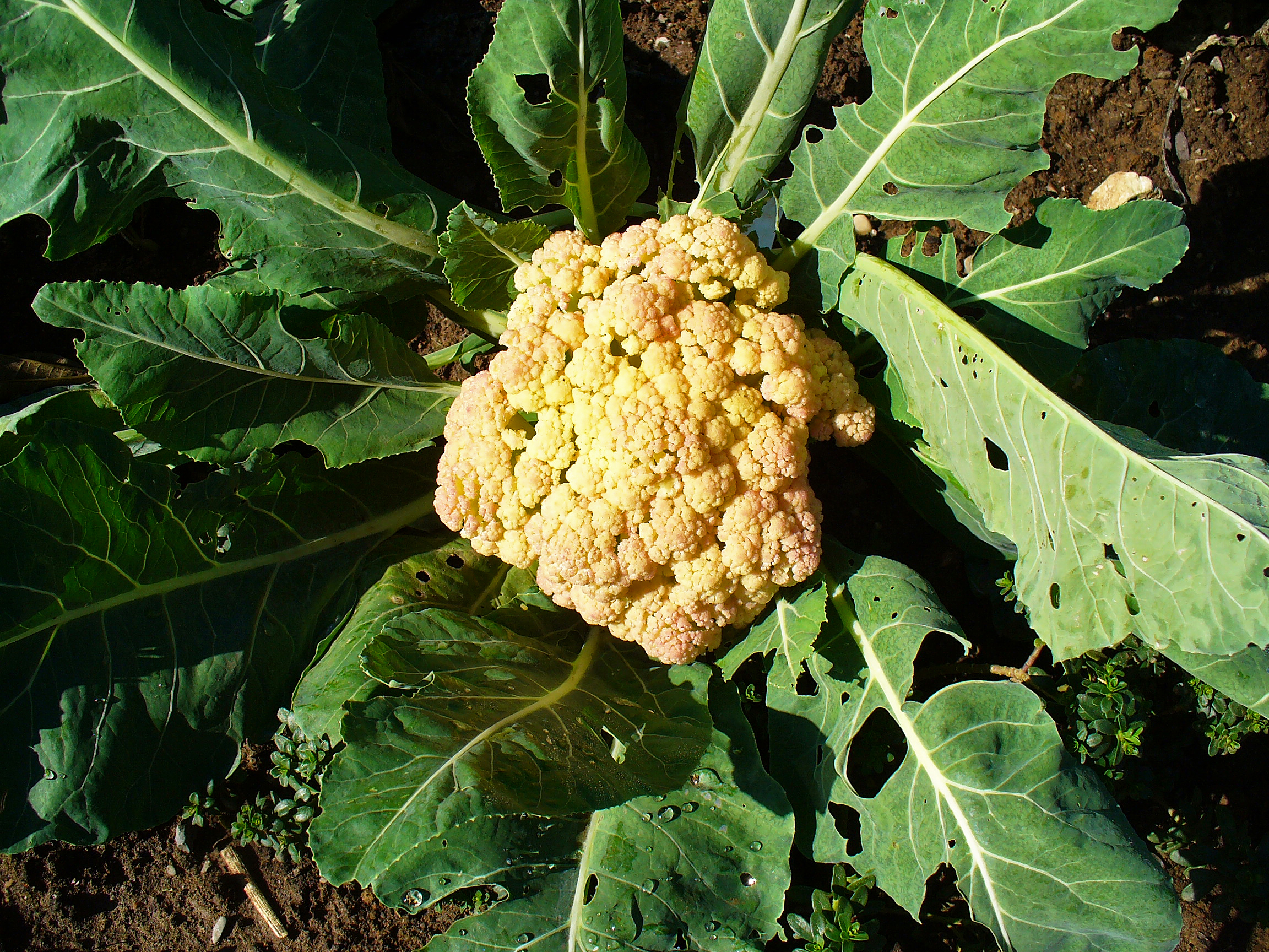 Brassica oleracea var. bothrytis, Brassicaceae, Cauliflower, habitus; Botanical Garden KIT, Karlsruhe, Germany.